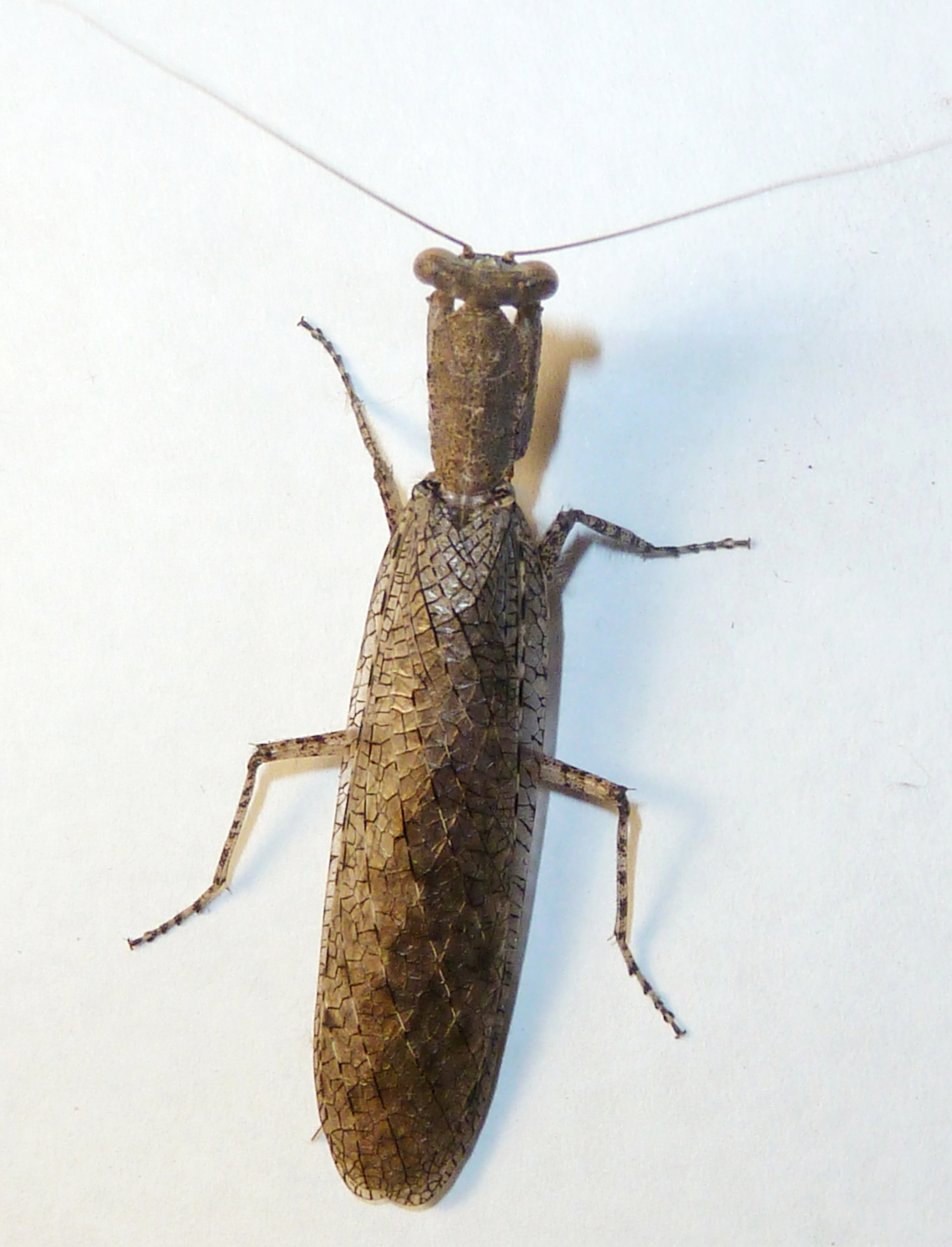 Tarachodes sp. in Pretoria